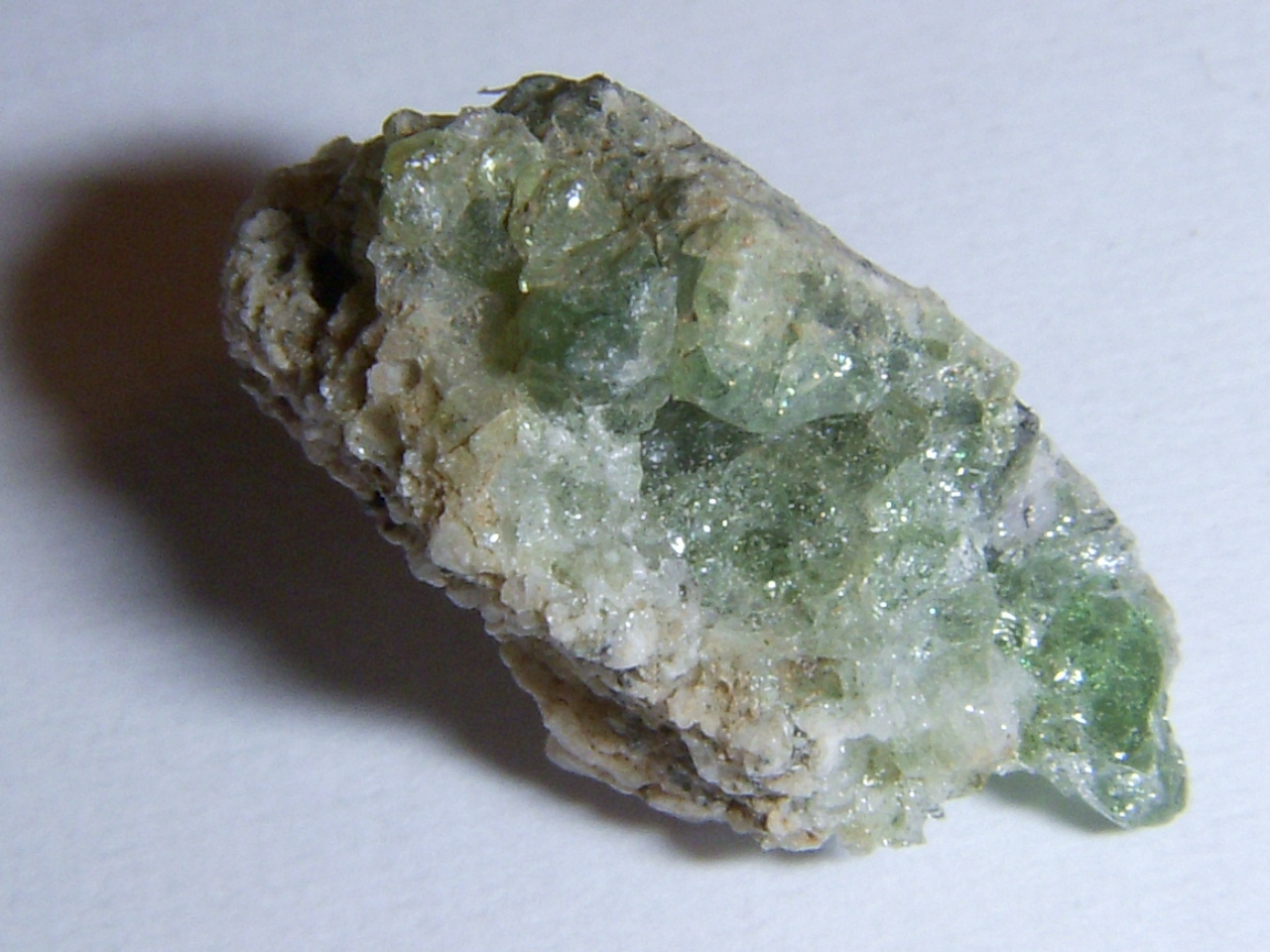 Small piece of trinitite, detail, showing side structure